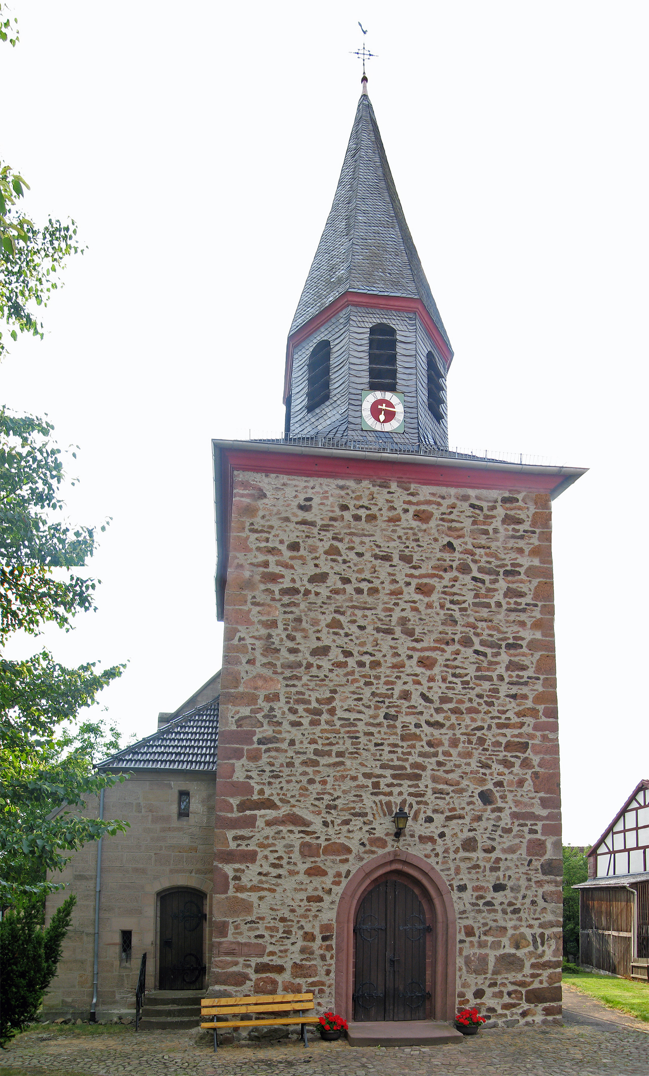 The church in Speckswinkel a village in the area of Neustadt (Hesse)